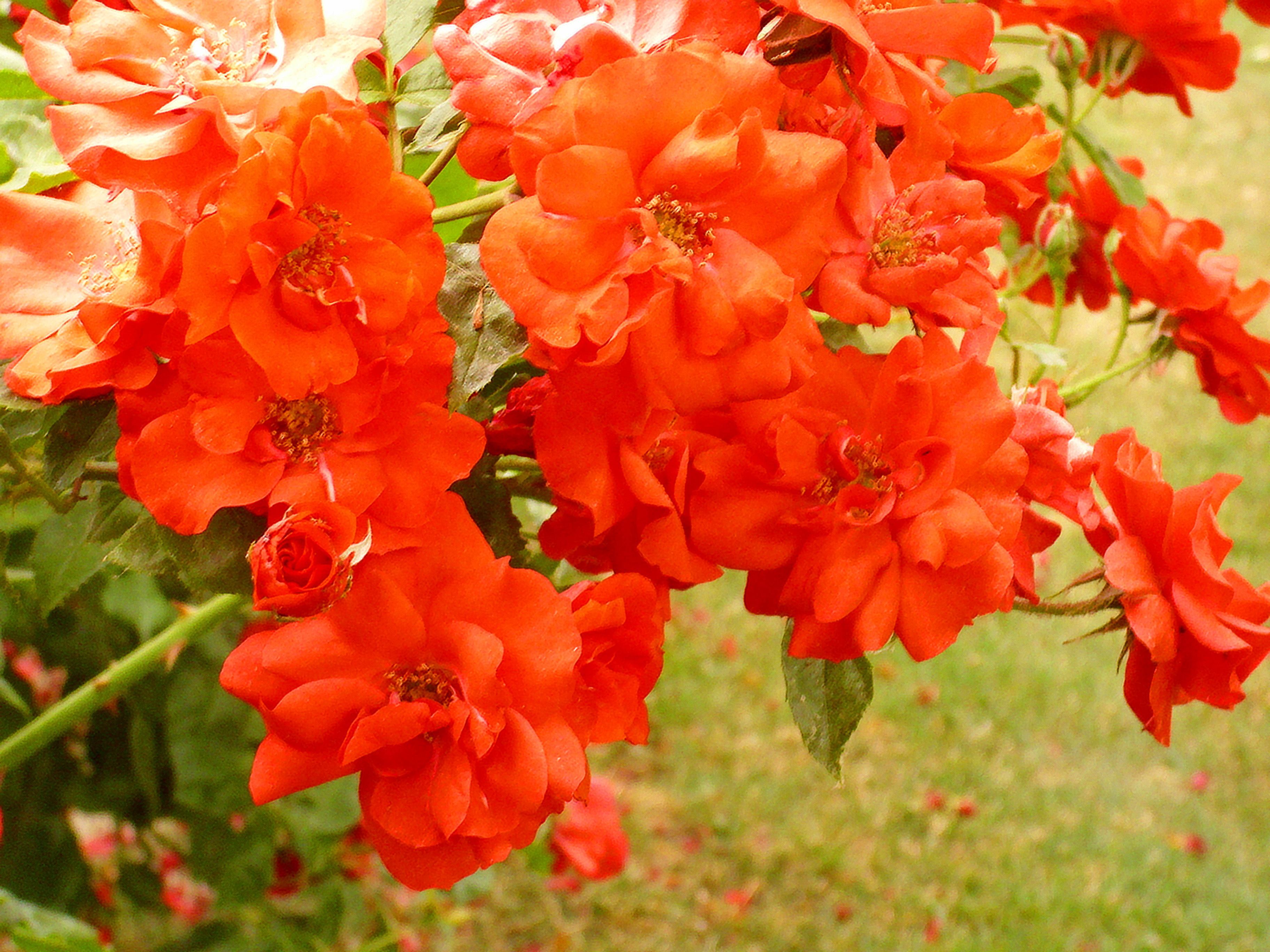 Rosa 'La Sevillana' M. L. Meilland, in Parque Gasset, Ciudad Real, Spain.